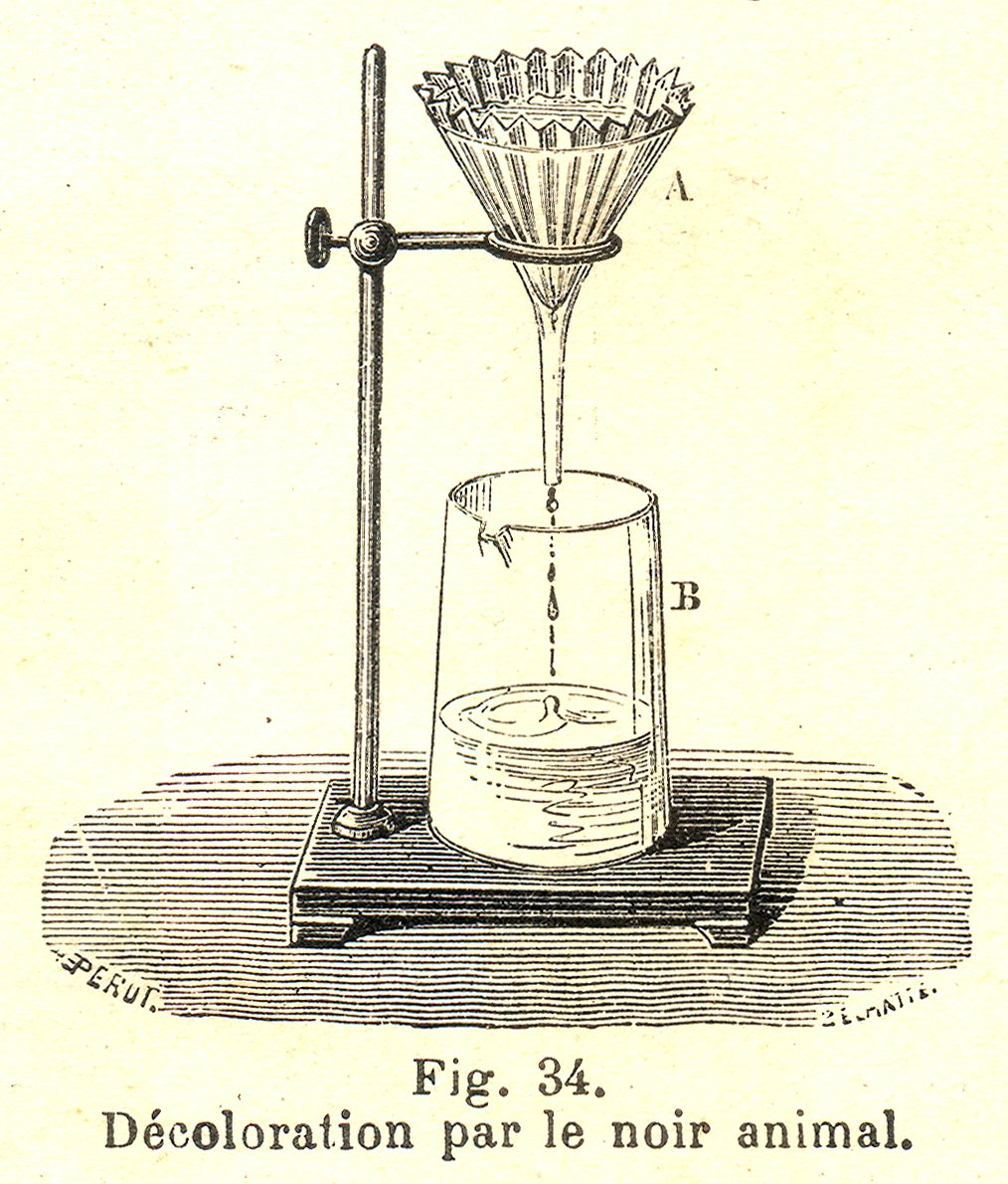 Decoloration of a liquide with black animal chacoalPicture scanned in : Leçons élémentaires de chimie (B.Bussard, H.Dubois). 1906, page 40.